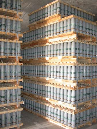 Pallets of 105 mm Mustard Gas artillery shells Stored at Pueblo Chemical Depot.